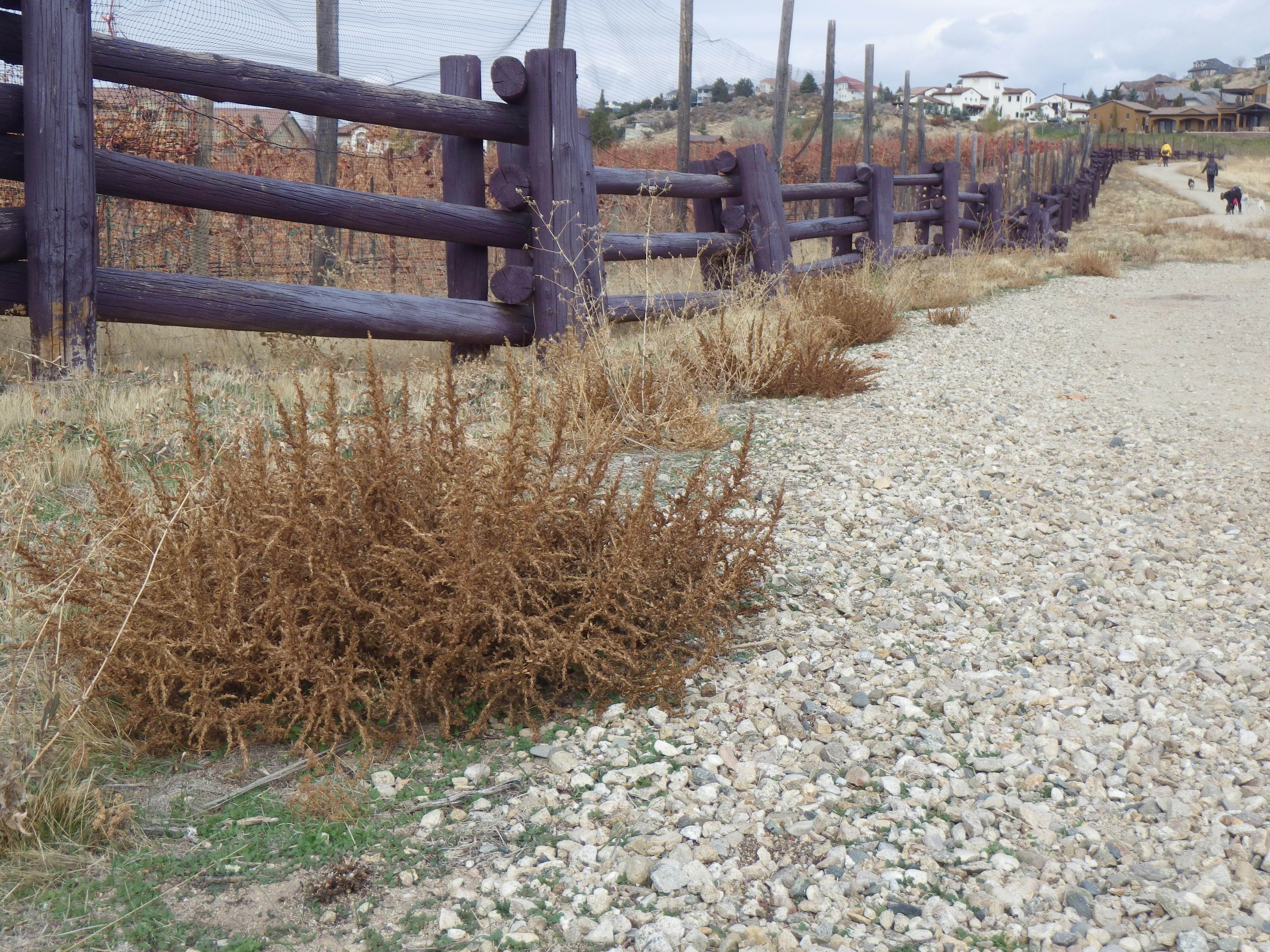 This annual amaranth is often reported as forming a tumbleweed by late fall.